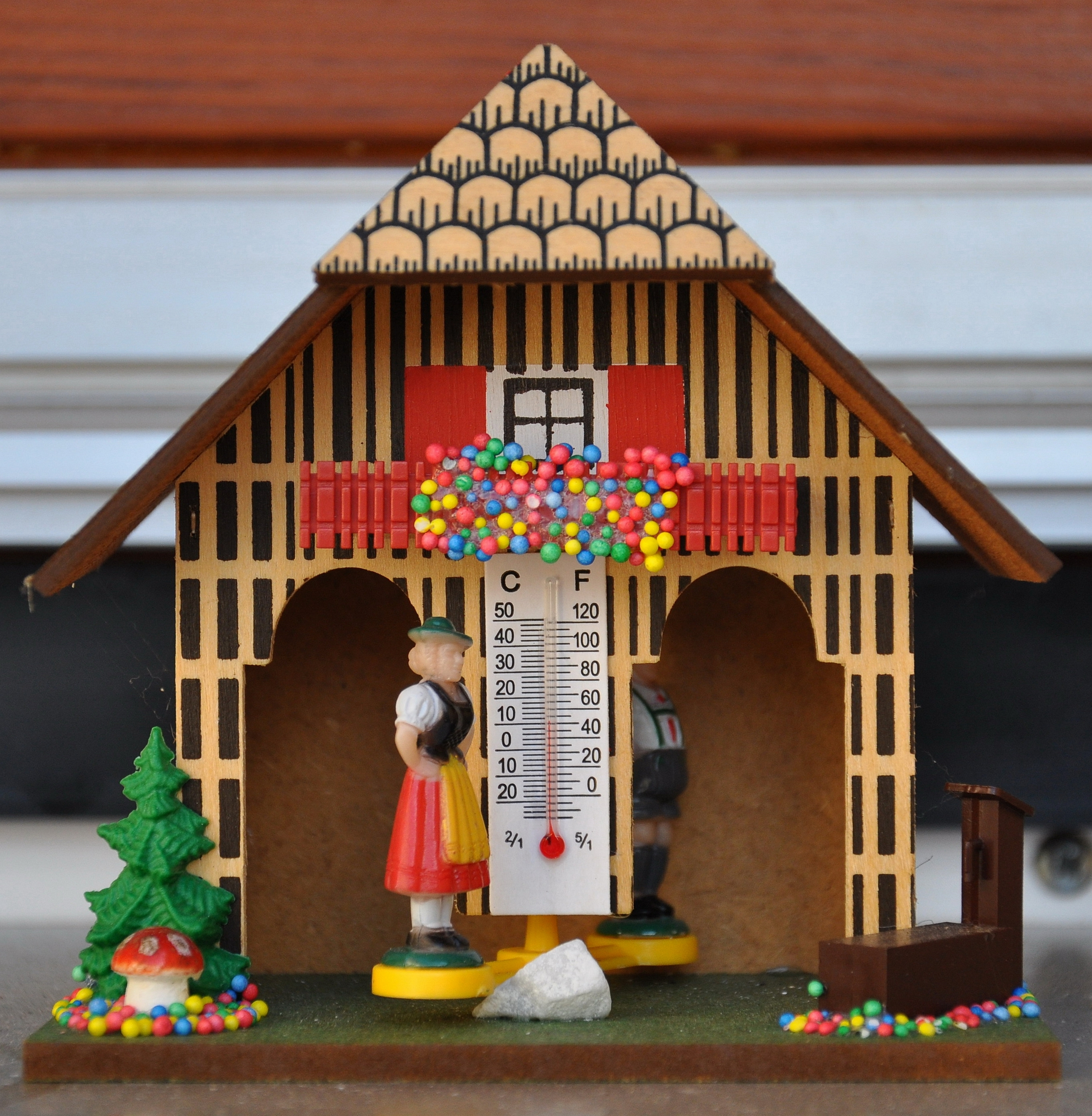 Austrian weather house, showing fine weather